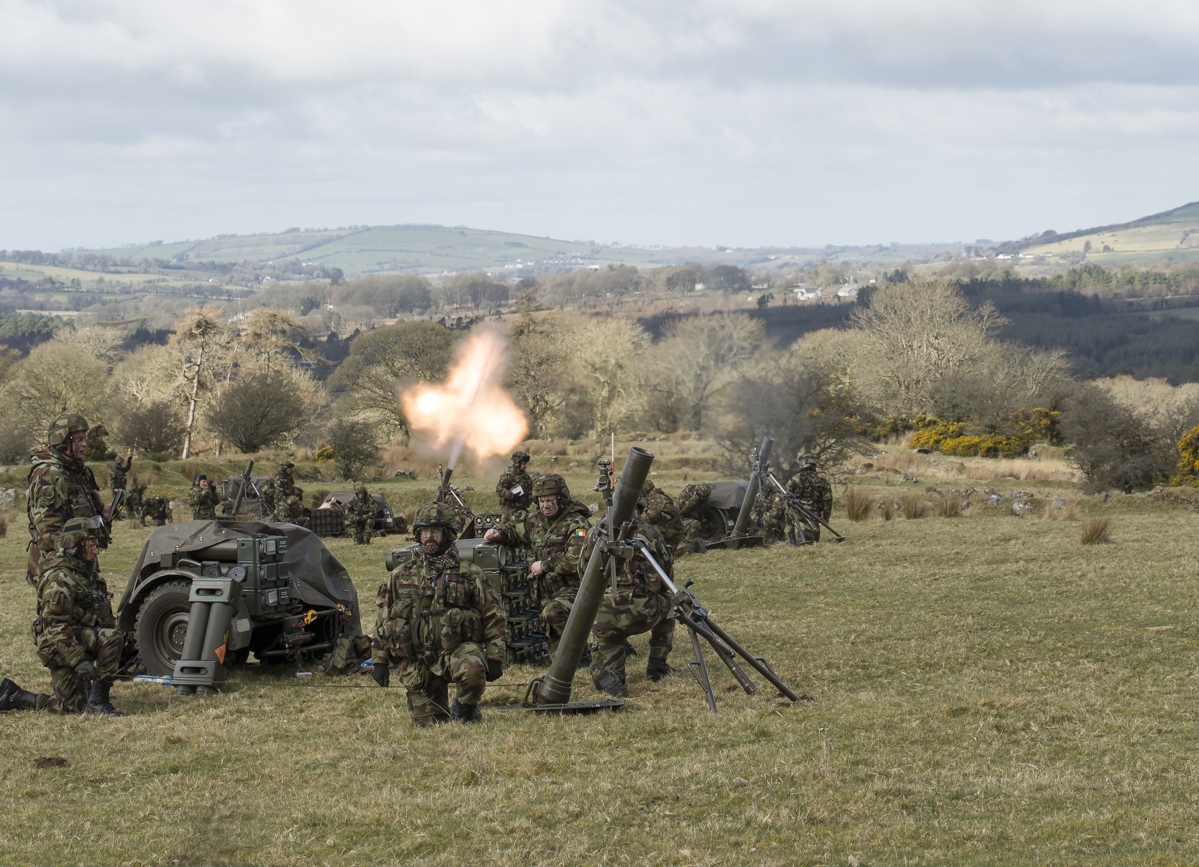 The Arty School exercising both a Young Officers course and an Artillery Standard NCO cse Live Firing Day and night shoot_46